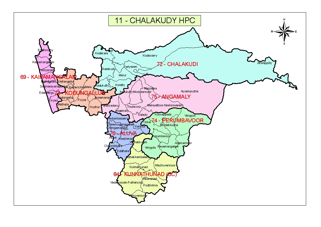 This is the map of Chalakudy Lok Sabha Constituency